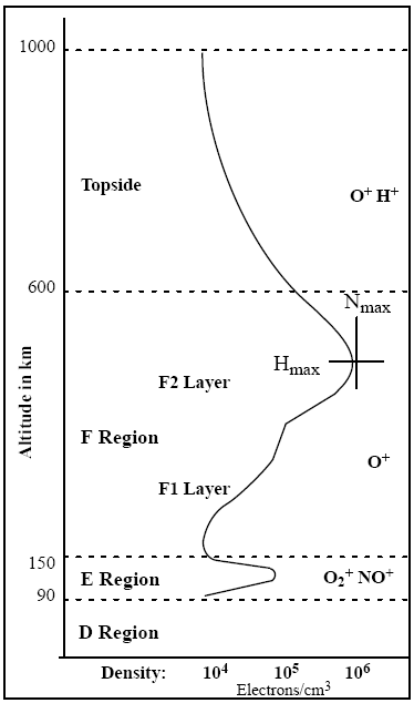 Various layers of the ionosphere and their predominant ion populations are listed at their respective heights above ground. The density in the ionosphere varies considerably, as shown.